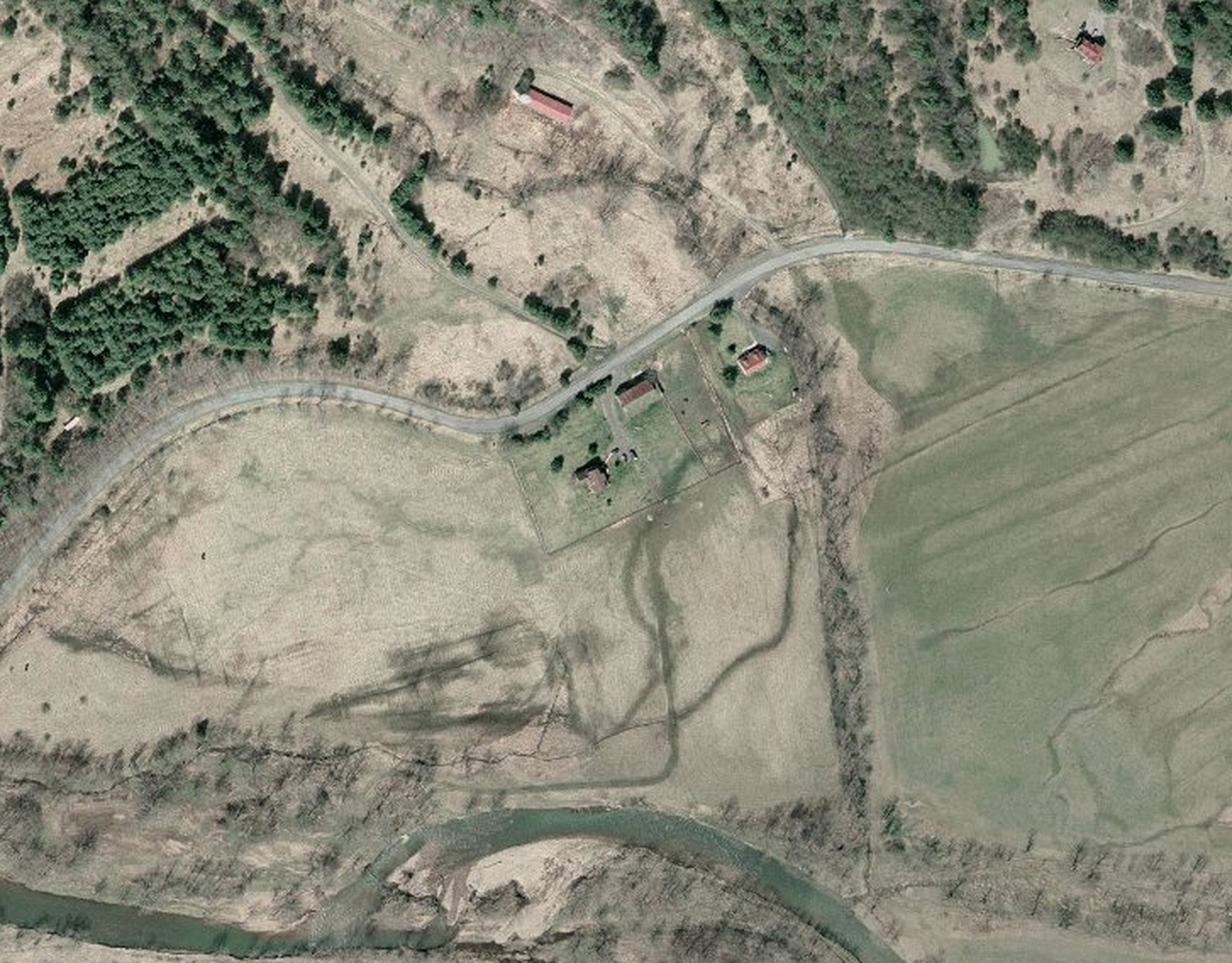 Aerial view of the community of Clover Creek, Highland County, Virginia. The Bullpasture River is shown in the lower parts of the image